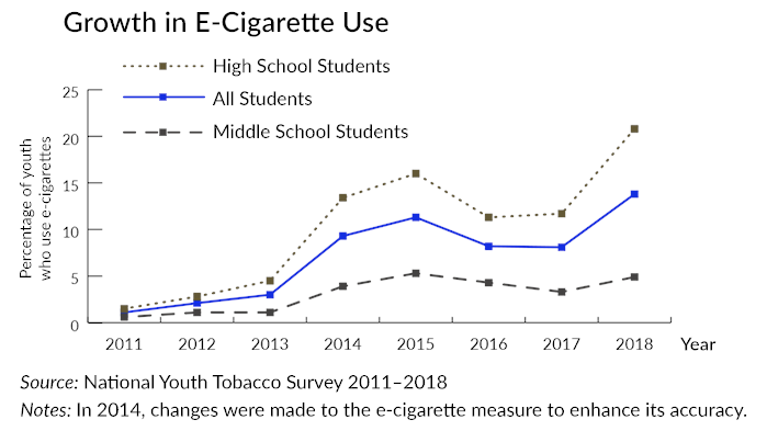 Accompanying description: E-cigarettes are very popular with young people. Their use has grown dramatically in the last five years. Today, more high school students use e-cigarettes than regular cigarettes. The use of e-cigarettes is higher among high school students than adults.